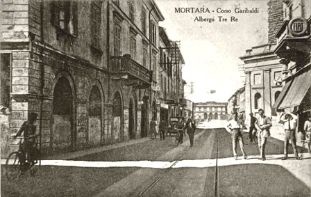 Mortara, corso Garibaldi